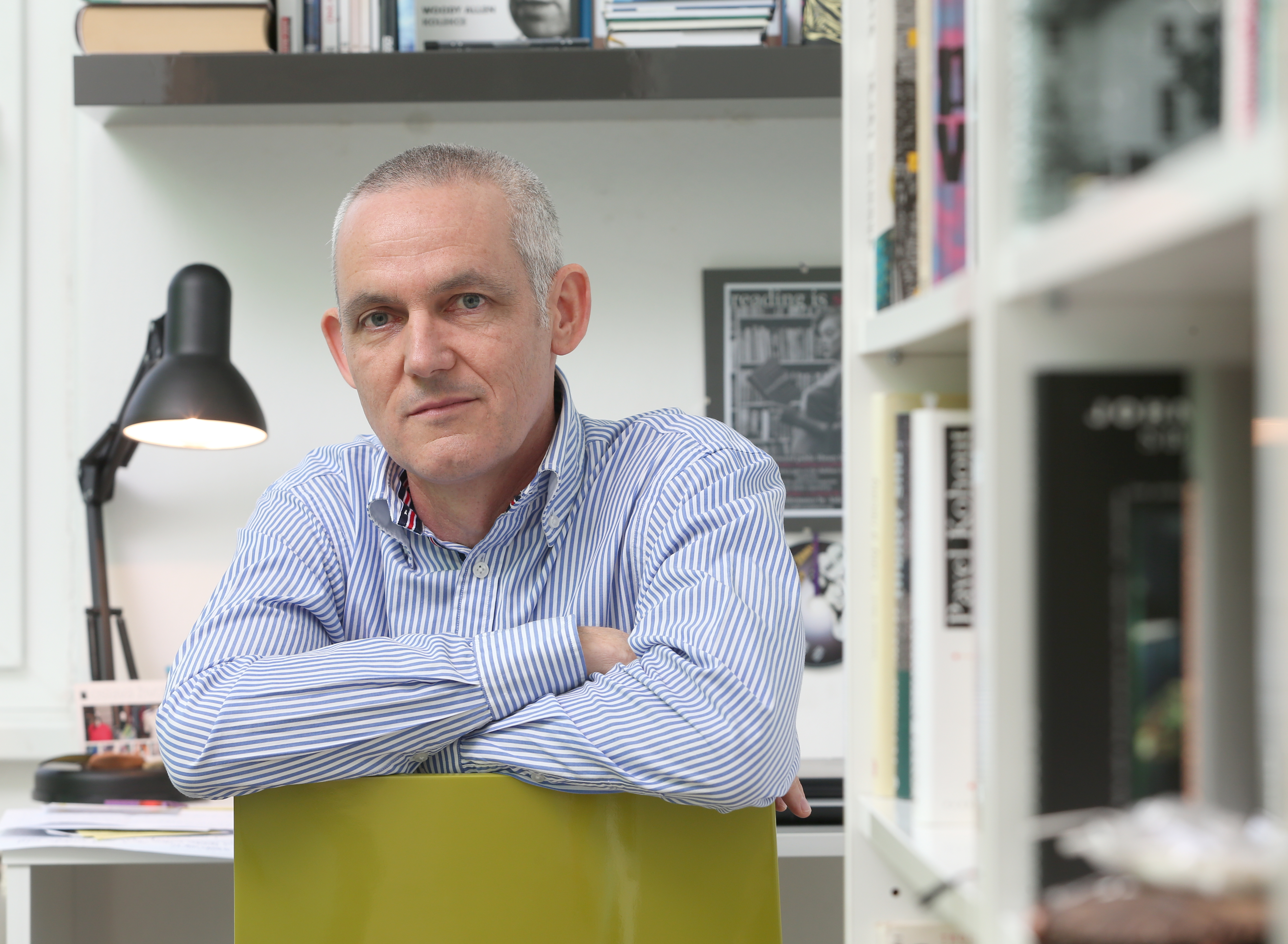 Jiří Hájíček, spisovatel, České Budějovice, 9.9.2015